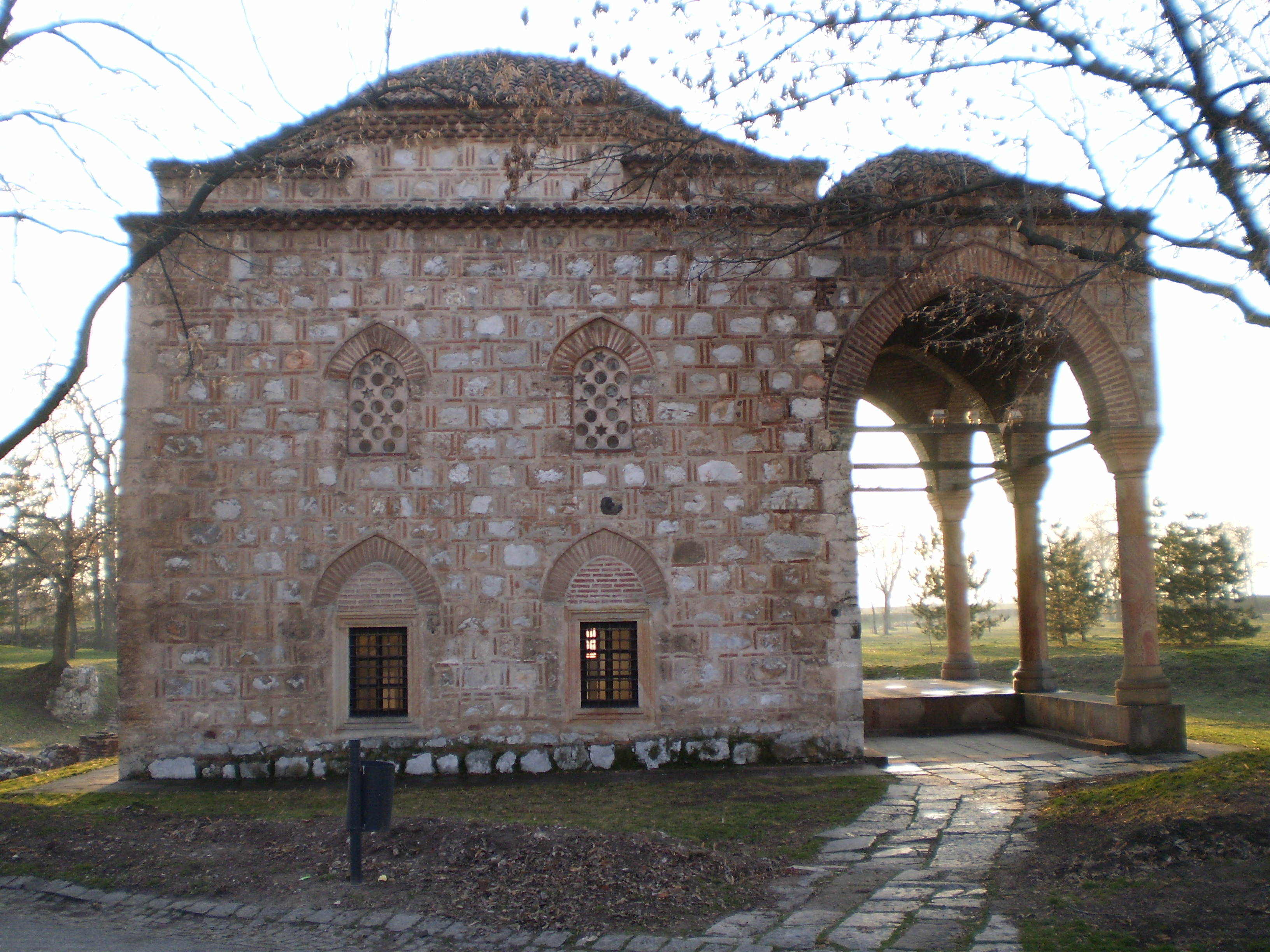 The Gallery of Contemporary Fine Arts Niš, Serbia-Salon 77 Srpski (latinica): GSLU Niš, Salon 77 (Bali-begova džamija u Niškoj tvrđavi). Autor dr Milorad Dimić